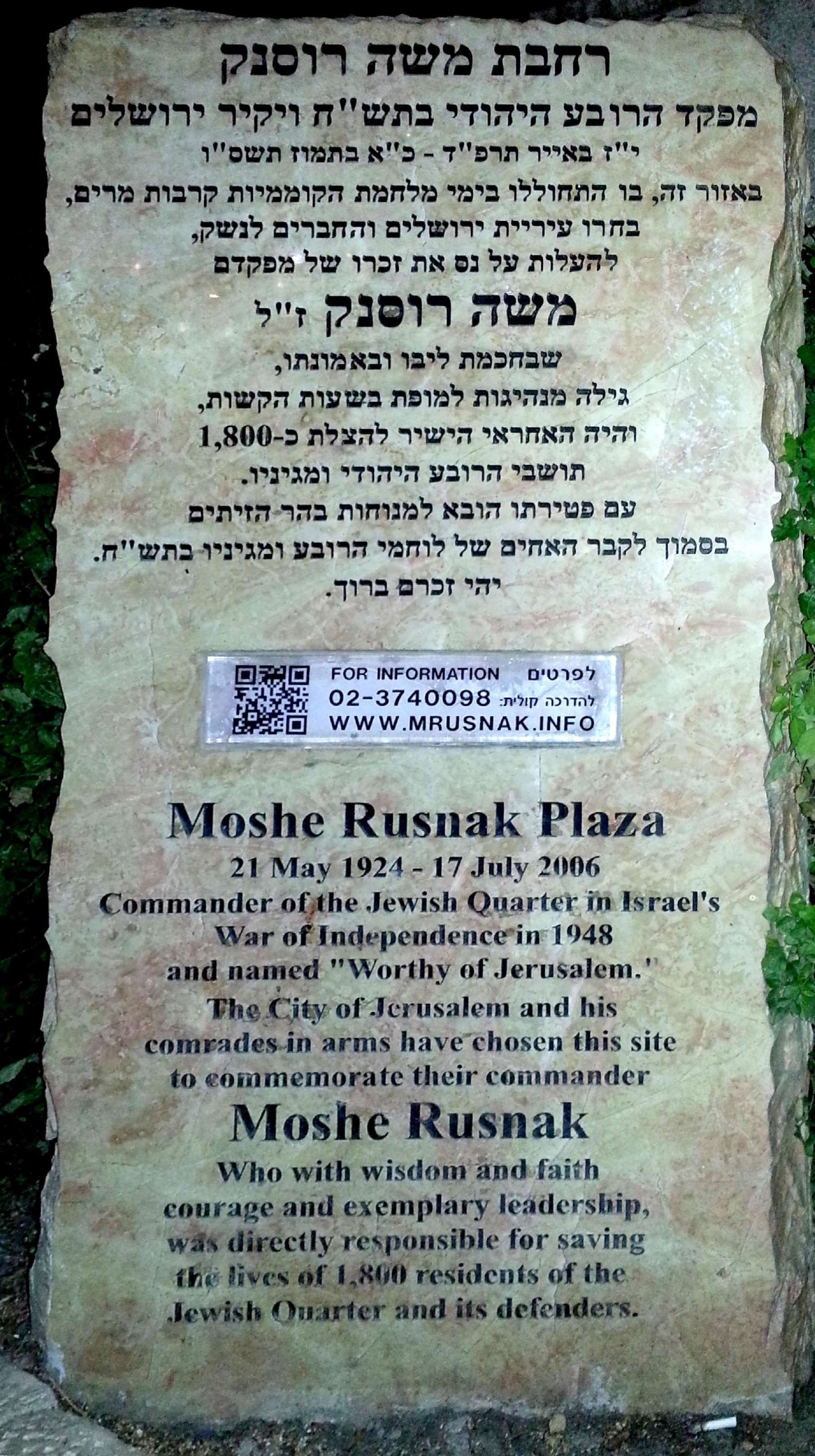 Old Jerusalem, Jewish Quarter road, Moshe Rusnak Plaza.